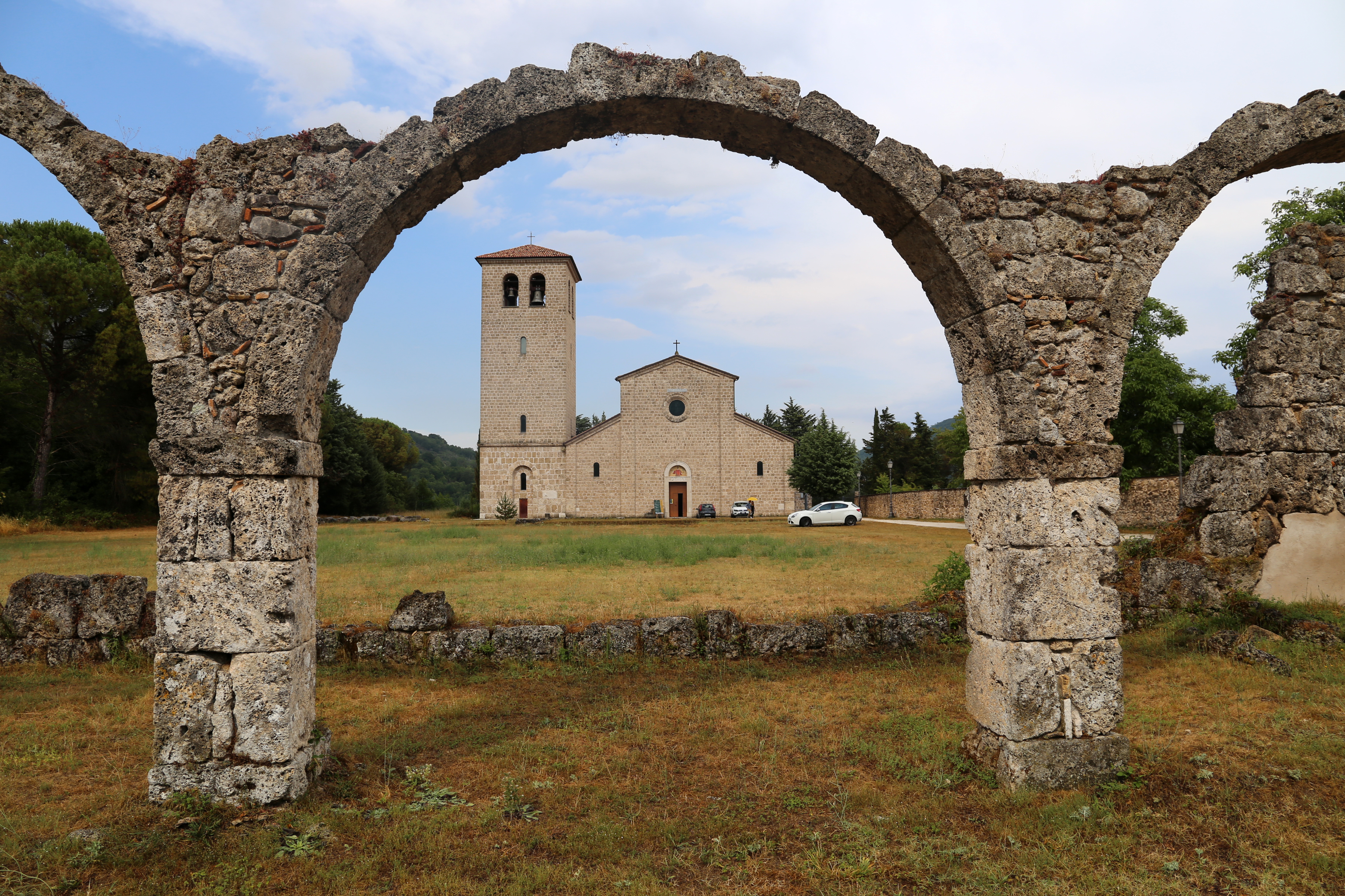 San Vincenzo al Volturno